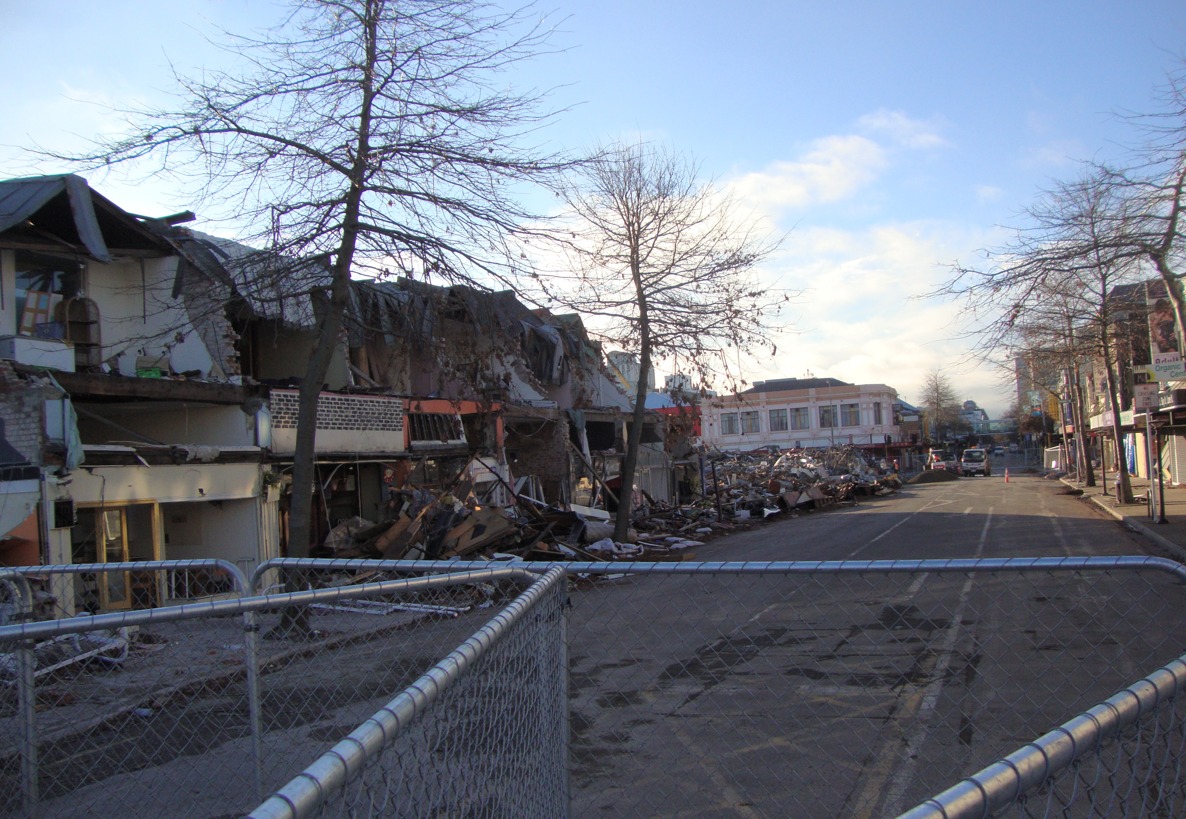 The block of Colombo Street where 15 people died in the 2011 Christchurch earthquake.